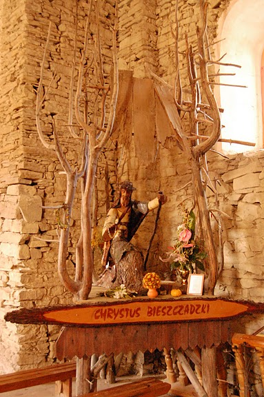 Bieszczady Christ from church in Łopienka. Village in Bieszczady mountain in east-south Poland.